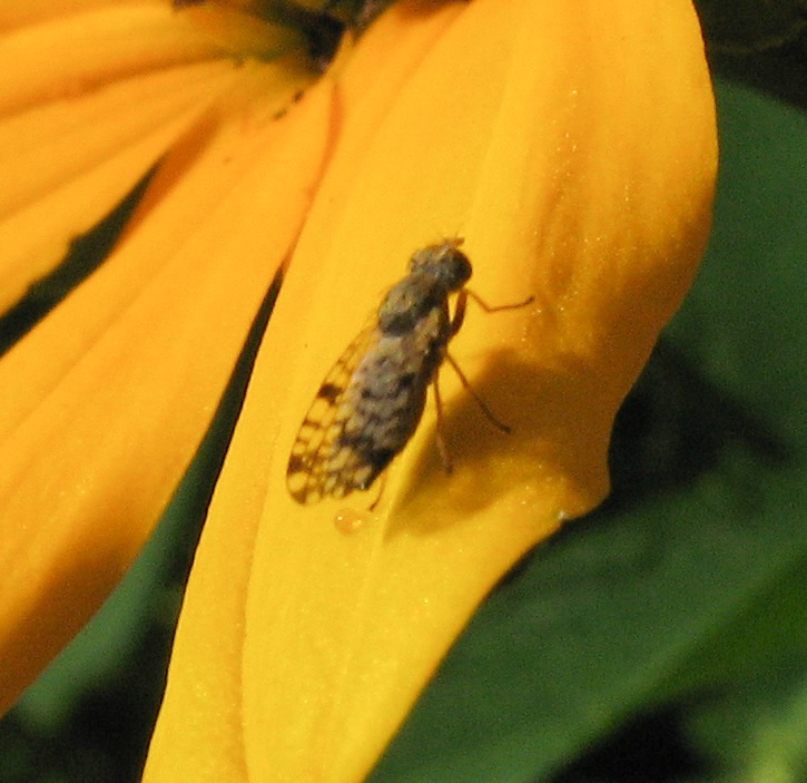 Dioxyna picciola (tephritid fly) on sunflower. Pennypack Ecological Restoration Trust, Montgomery County, Pennsylvania, USA. June 30, 2011